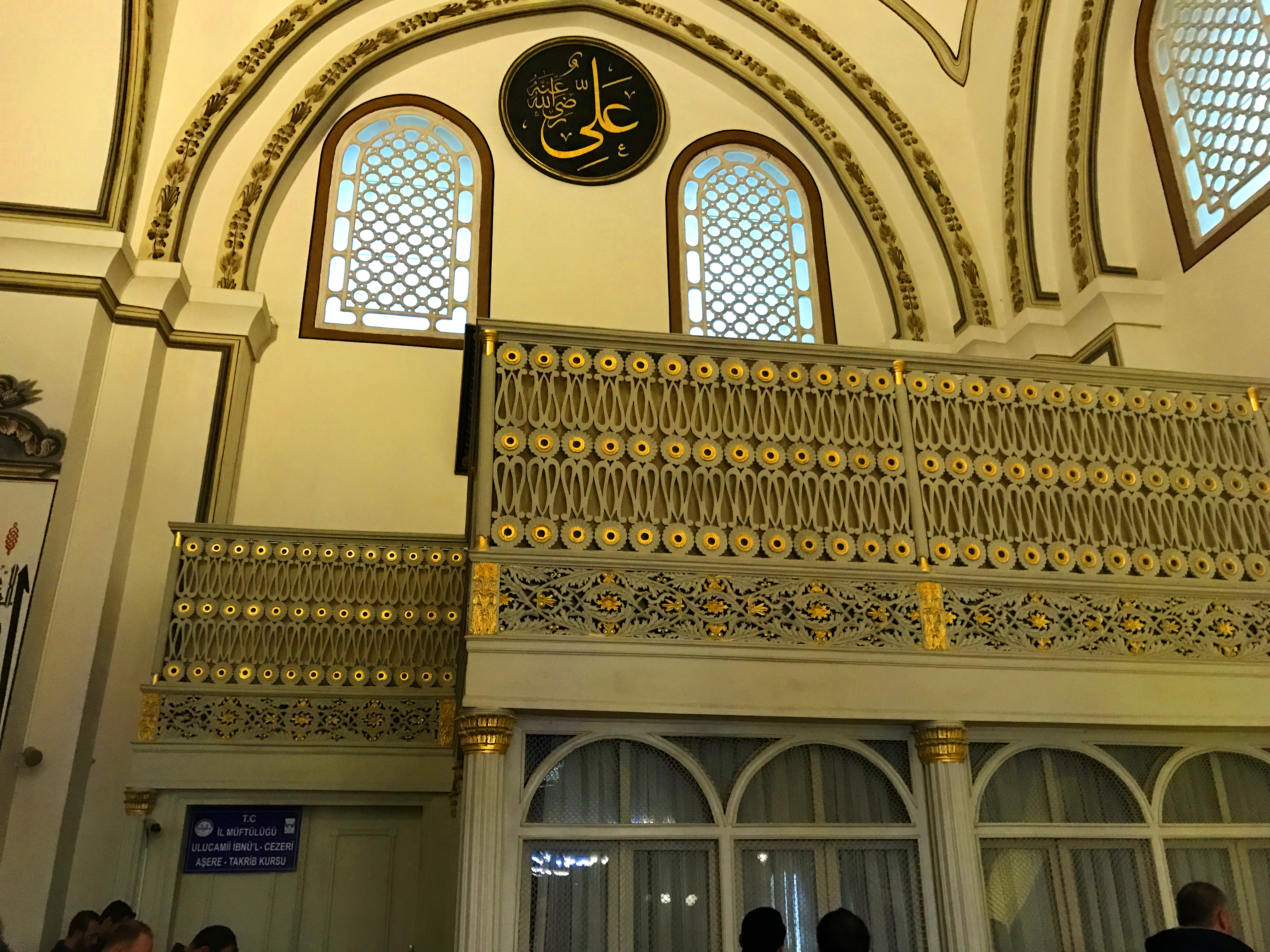 "Ulu Cami" (Grand Mosque of Bursa), Bursa, Turkey.